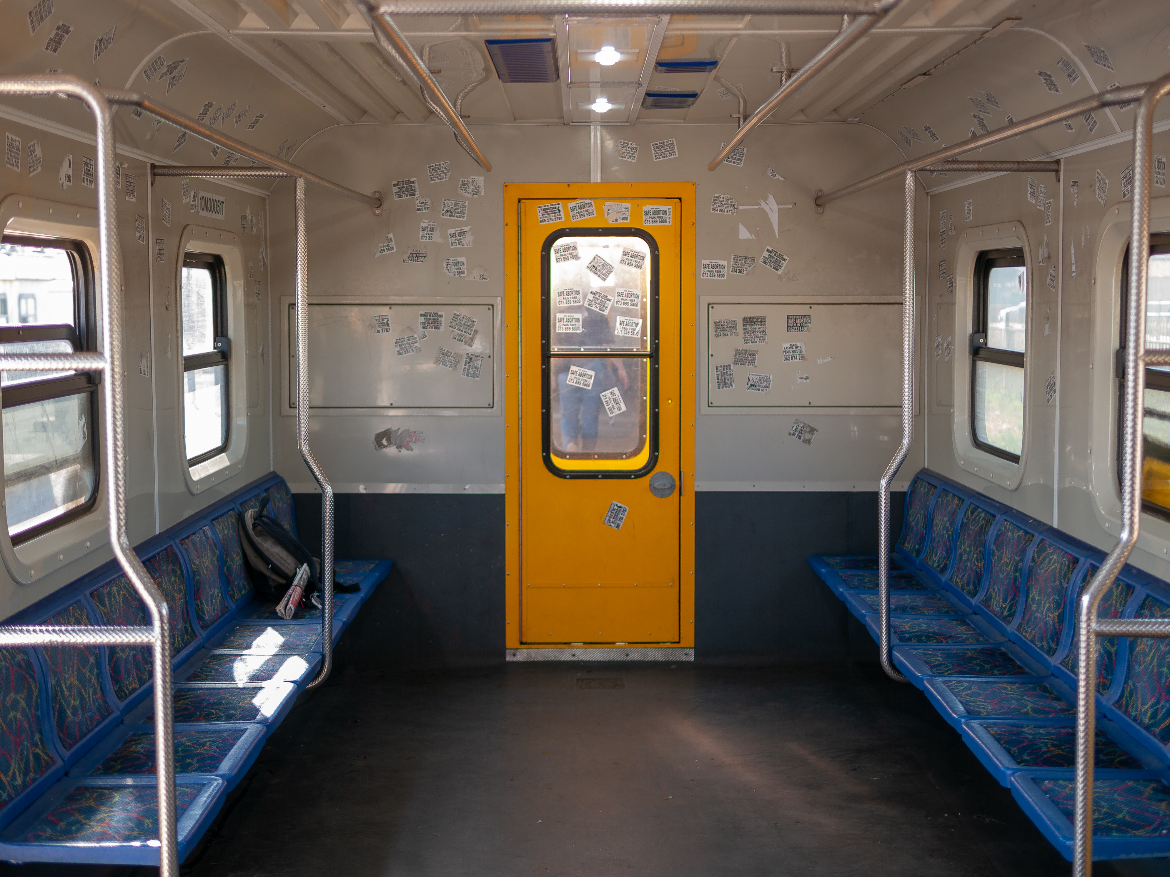 Interior of a 5M2 class Metrorail train (Metrorail Capetown)